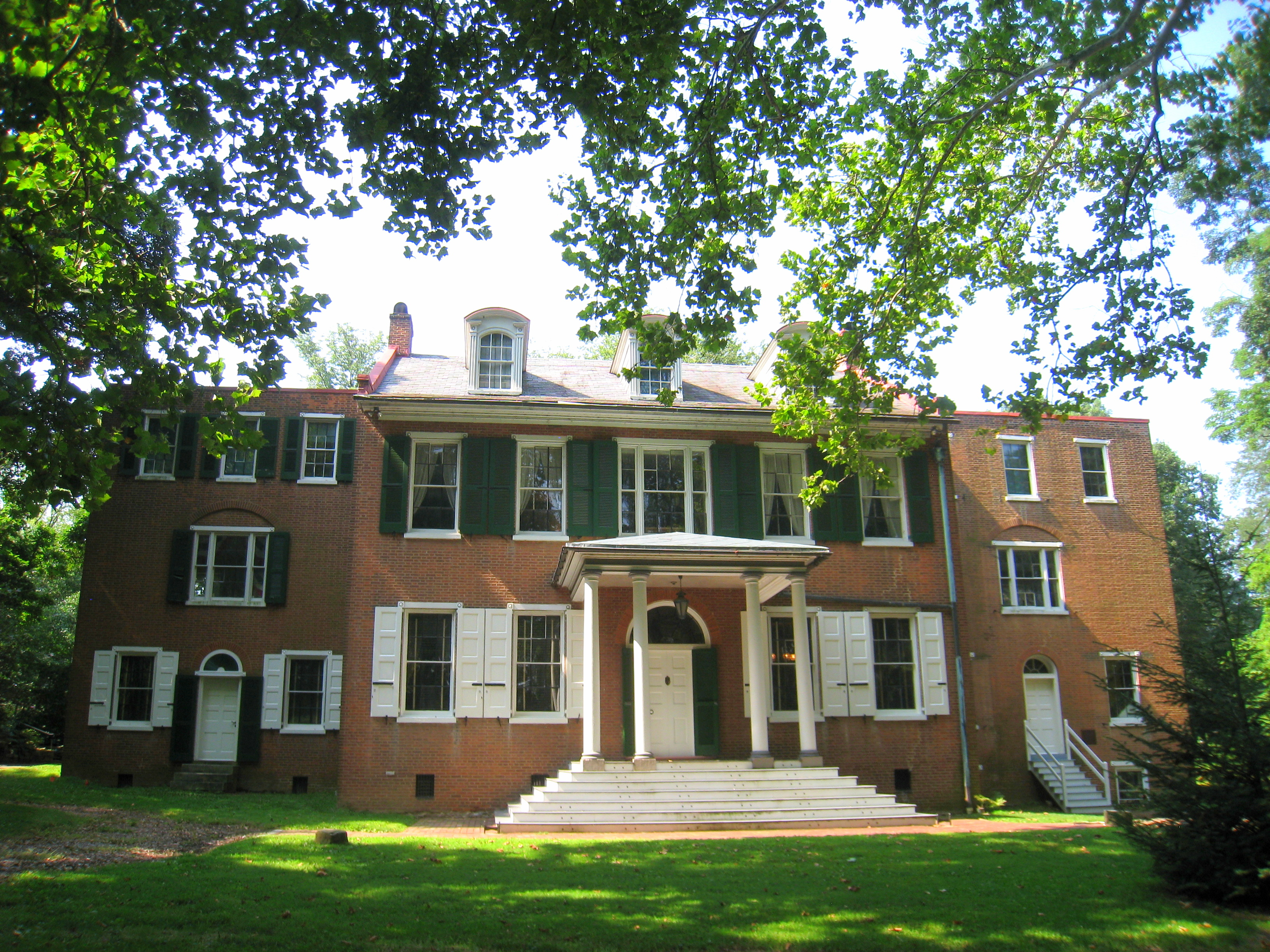 Wheatland, home of US President James Buchanon, in Lancaster, Pennsylvania, USA.